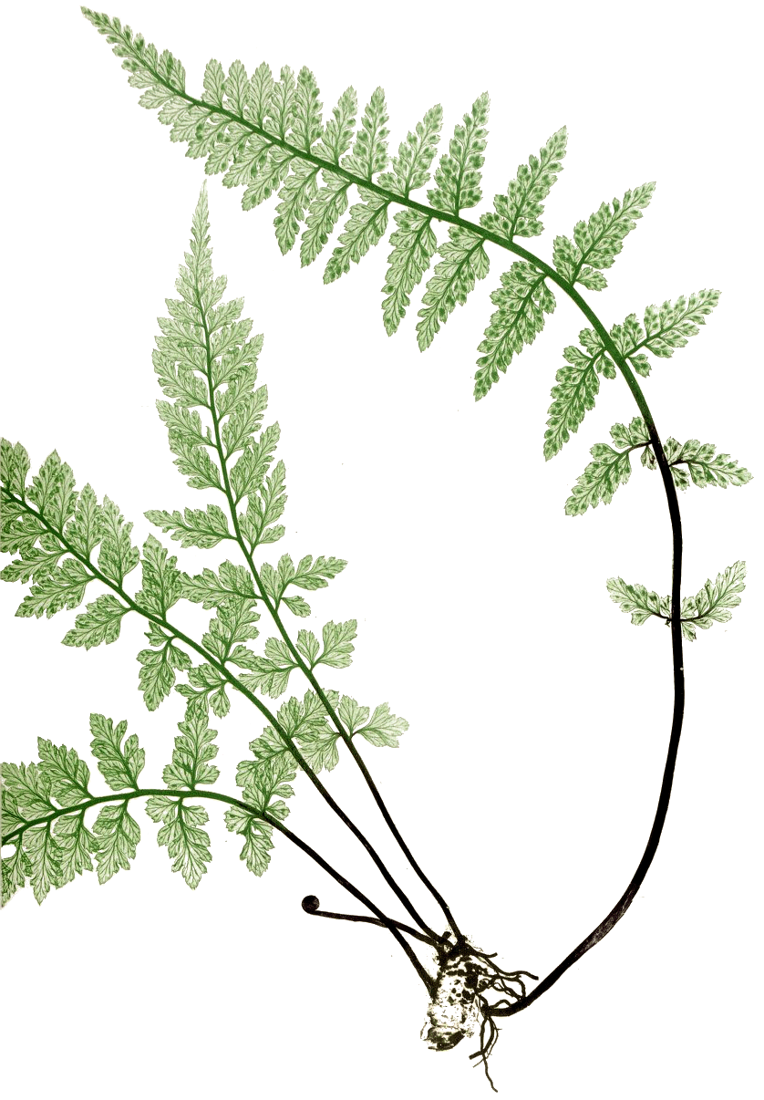 Plate 35, Fig. B2, Asplenium lanceolatum from The Ferns of Great Britain and Ireland (Thomas Moore), 1855. Note that the currently accepted name for Asplenium lanceolatum is Asplenium auritum